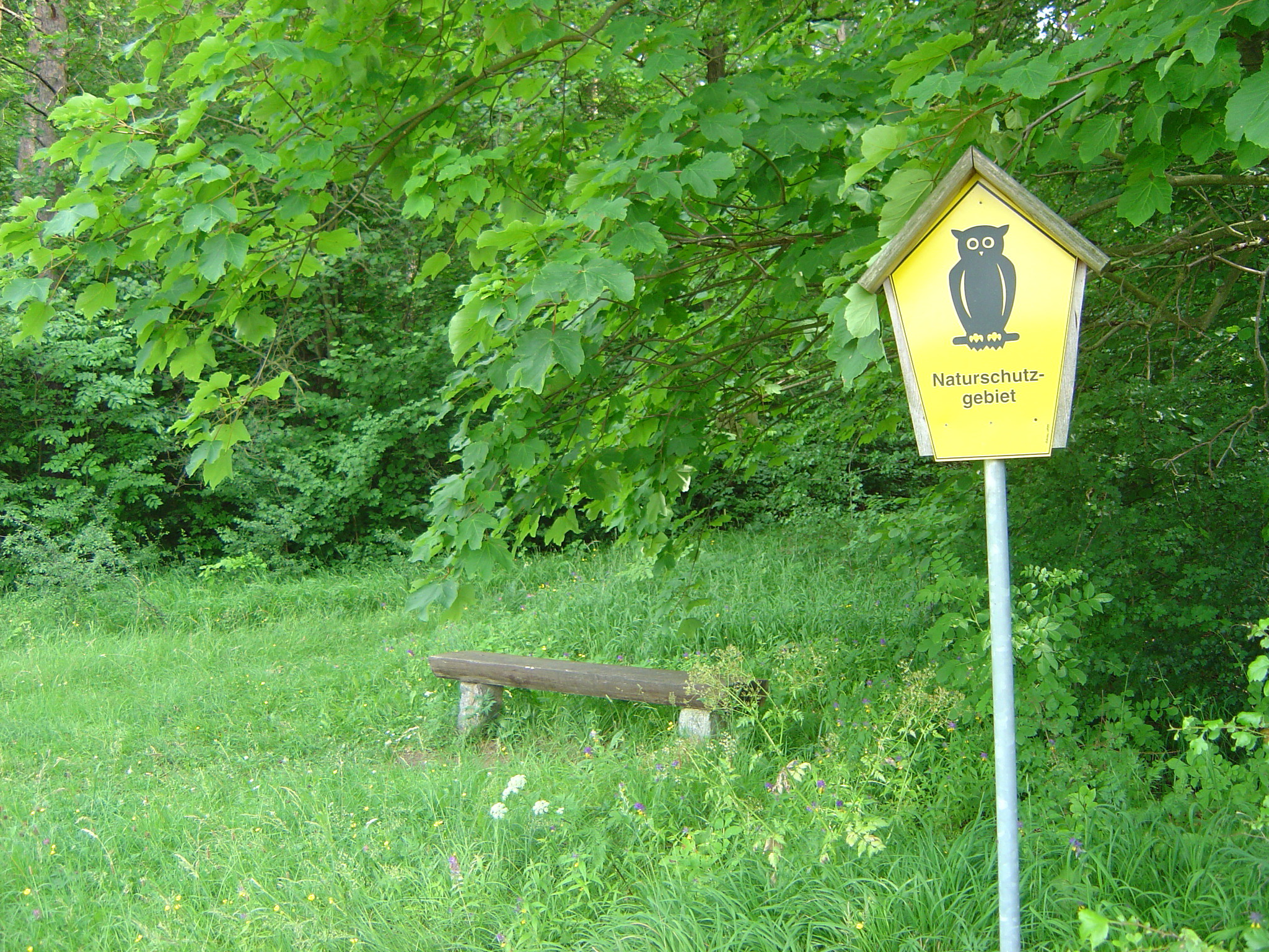 Conservation area Gottesholz near Espenfeld, Arnstadt